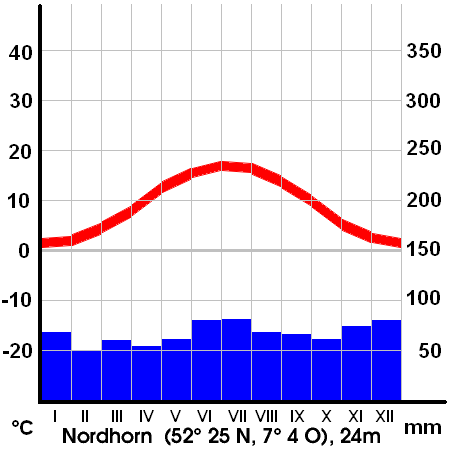 Description: Climate diagram of Nordhorn in Germany Source:Diagram created with: [3] Data from: [4] Date: 29. November 2005